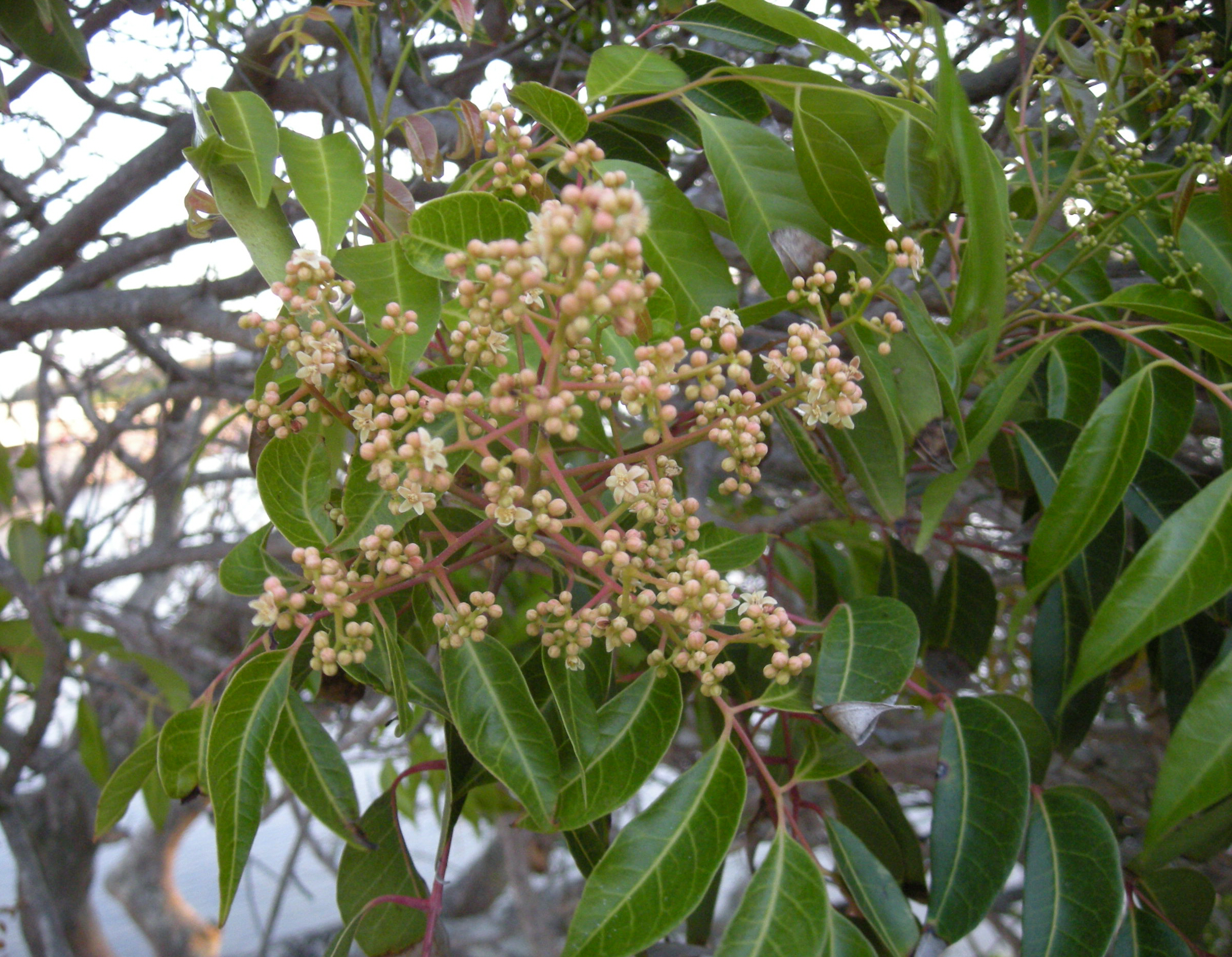 Euroschinus falcata flowers and foliage, The Causeway, Capricorn Coast.